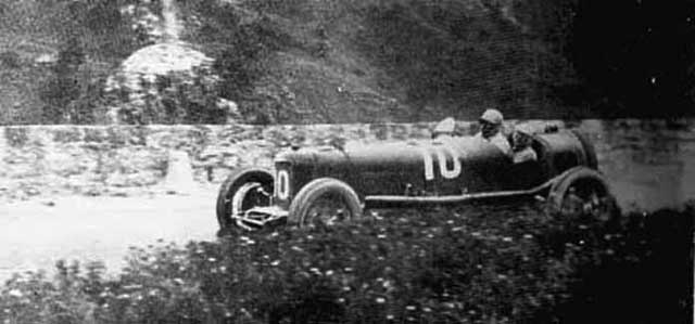 Entry #10 in the 1927 Targa Florio on April 24, 1927, was Ernesto Maserati in a Maserati Tipo 26, 1.5-litre straight-8 engine.